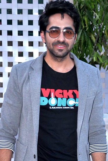 Ayushman Khurana - Imran Khan unveils MTV the ONE